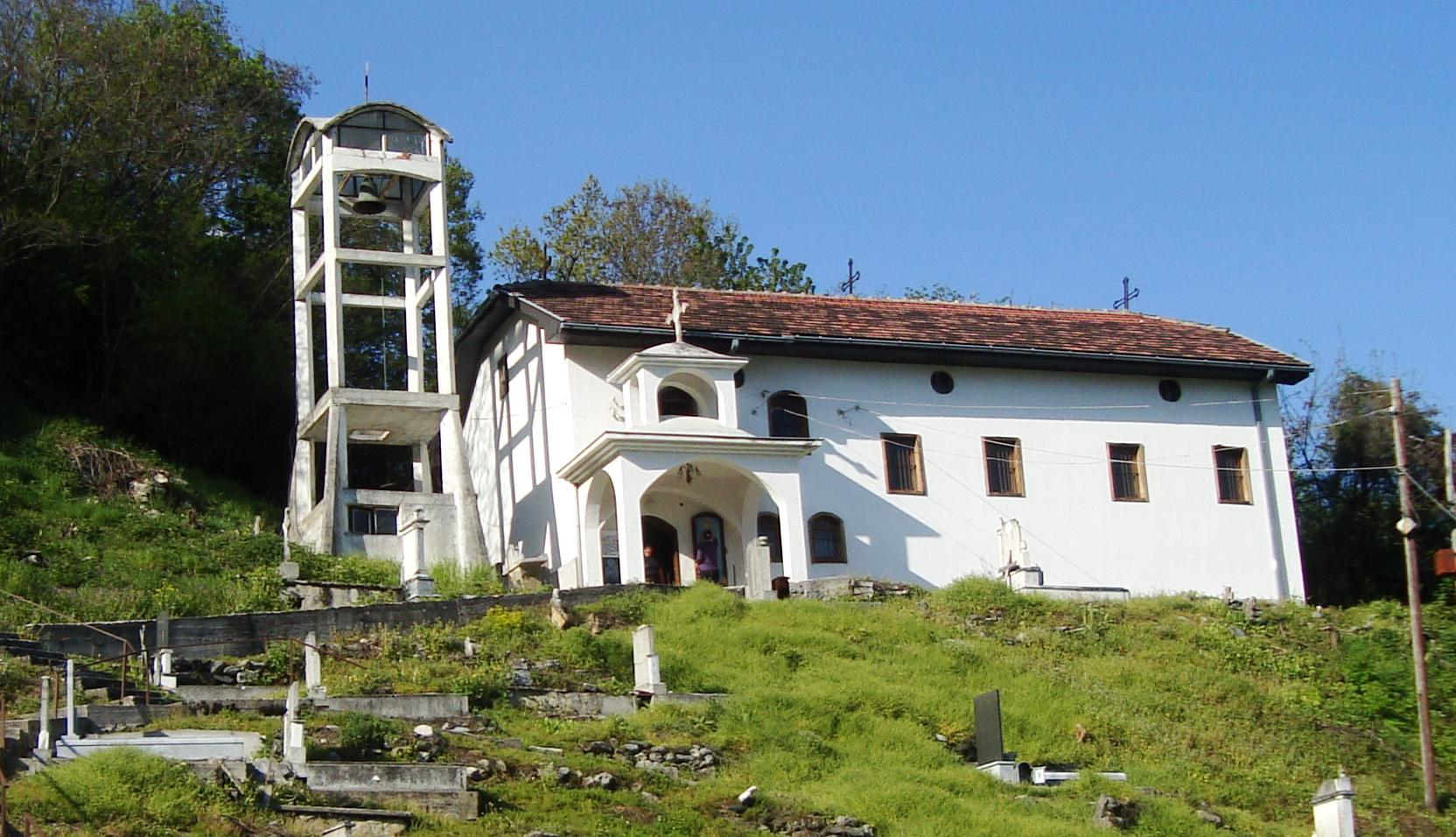 Church "Holy Mary", Belovište, Macedonia.